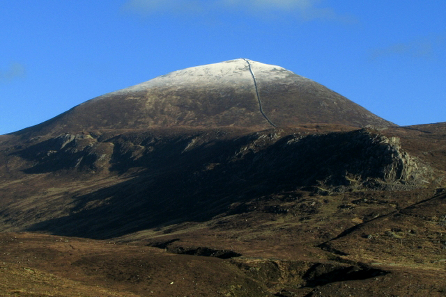 Slieve Donard A view of Sleive Donard from south-western edge of Annalong. The south face of Donard, the Mourne Wall is prominent as it rises towards the summit through the snow on the higher ground. The ridge in the foreground is known as the Bog of Donard.